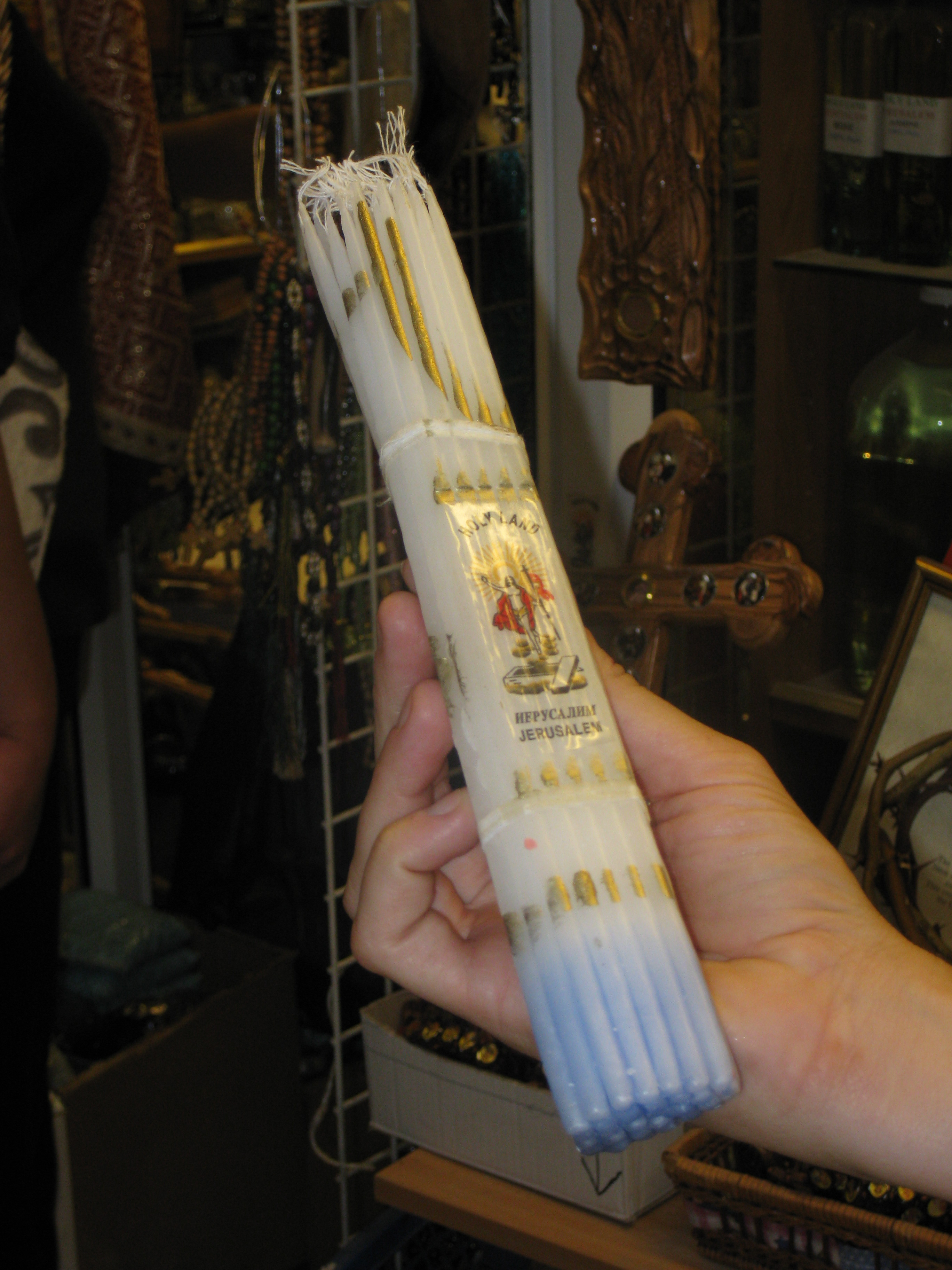 Tapers. Religious items sold in the shops of the christian Quarter in the Old City of Jerusalem הרובע הנוצרי בעיר העתיקה